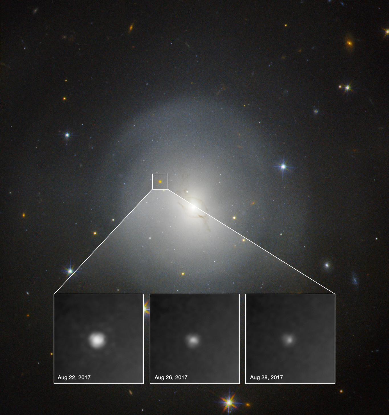 On 17 August 2017, the Laser Interferometer Gravitational-Wave Observatory (LIGO) and the Virgo Interferometer both detected gravitational waves from the collision between two neutron stars. Within 12 hours observatories had identified the source of the event within the lenticular galaxy NGC 4993, shown in this image gathered with the NASA/ESA Hubble Space Telescope. The associated stellar flare, a kilonova, is clearly visible in the Hubble observations. This is the first time the optical counterpart of a gravitational wave event was observed. Hubble observed the kilonova gradually fading over the course of six days, as shown in these observations taken in between 22 and 28 August (insets).